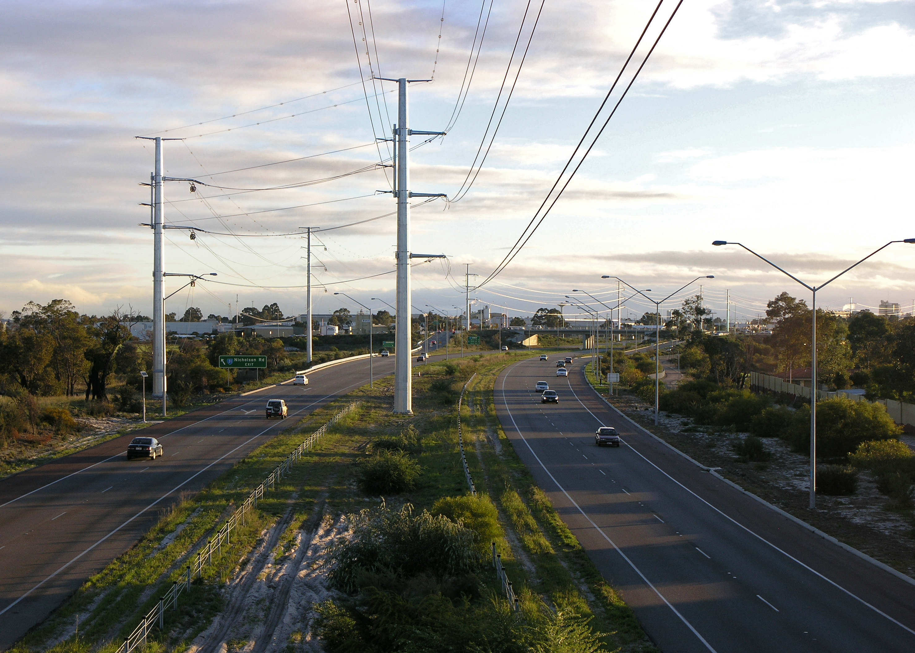 Roe Highway